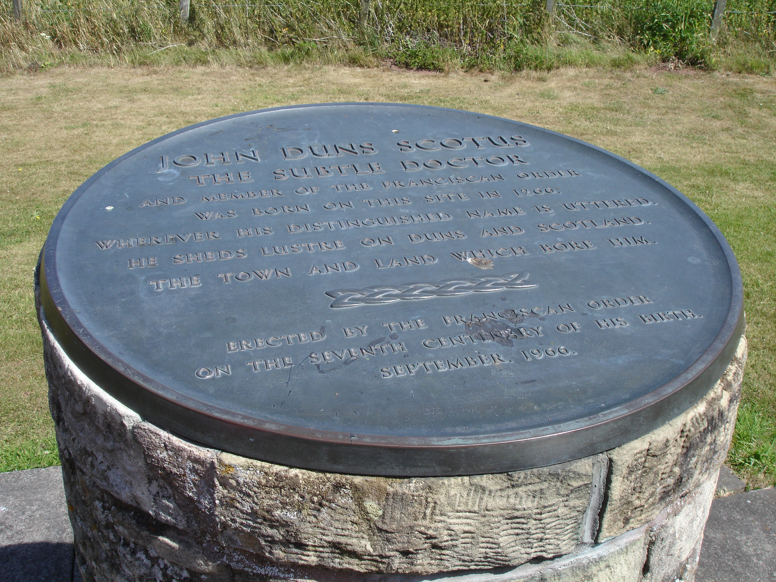 Cairn in honour of Duns Scotus, Scottish Borders